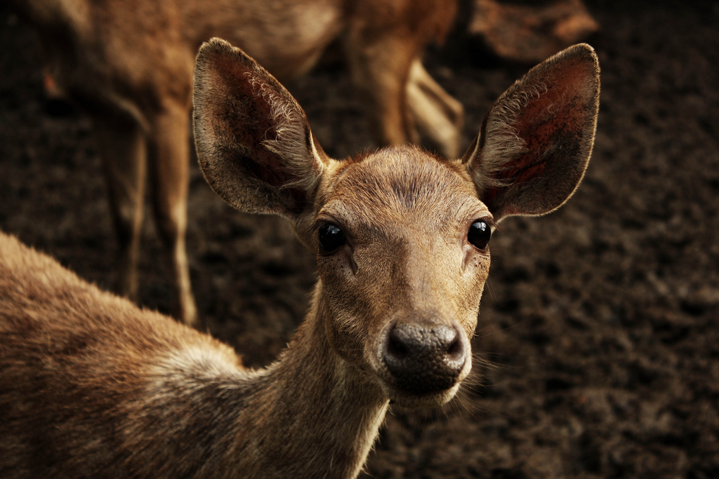 A photo of a Rusa Deer which is known by its species name of Cervus Timorensis.